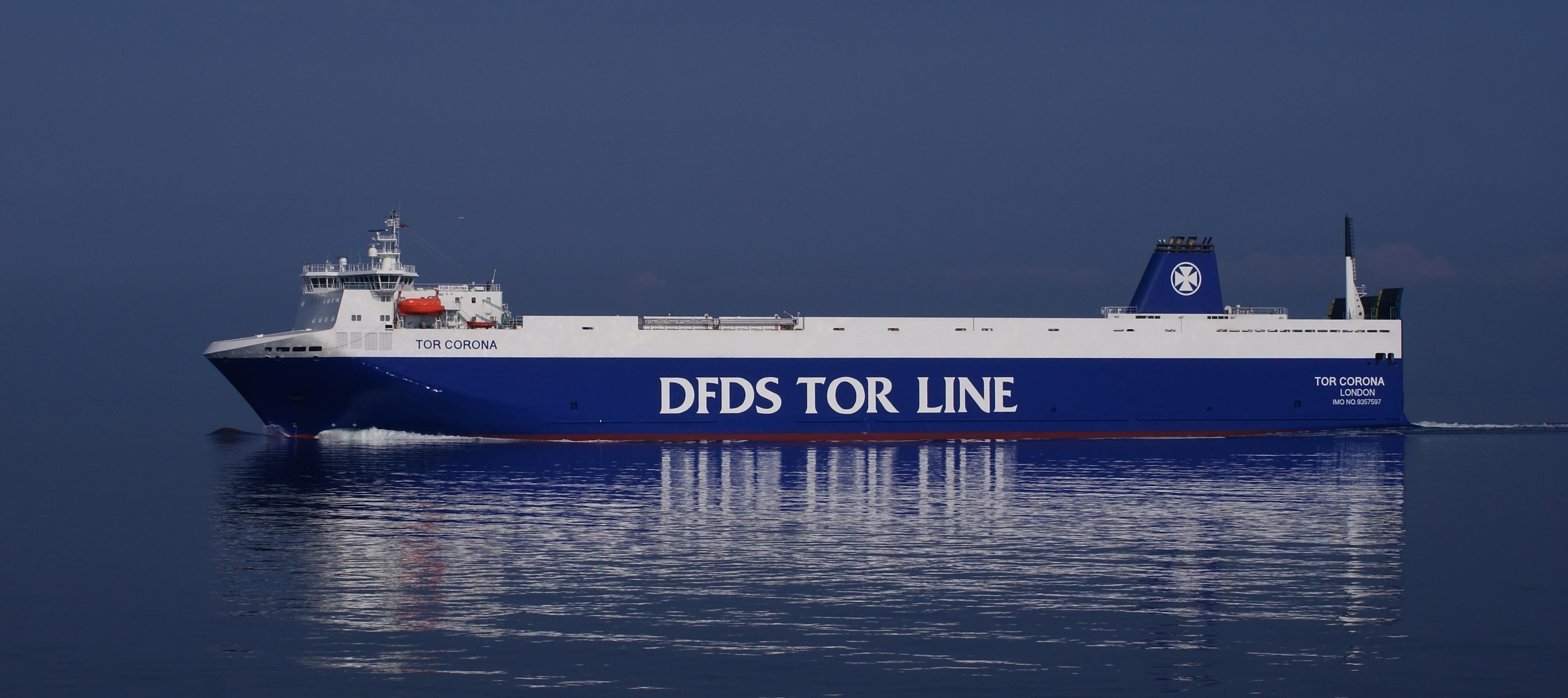 DFDS Tor Line Tor Corona observed in Øresund near Saltholm.